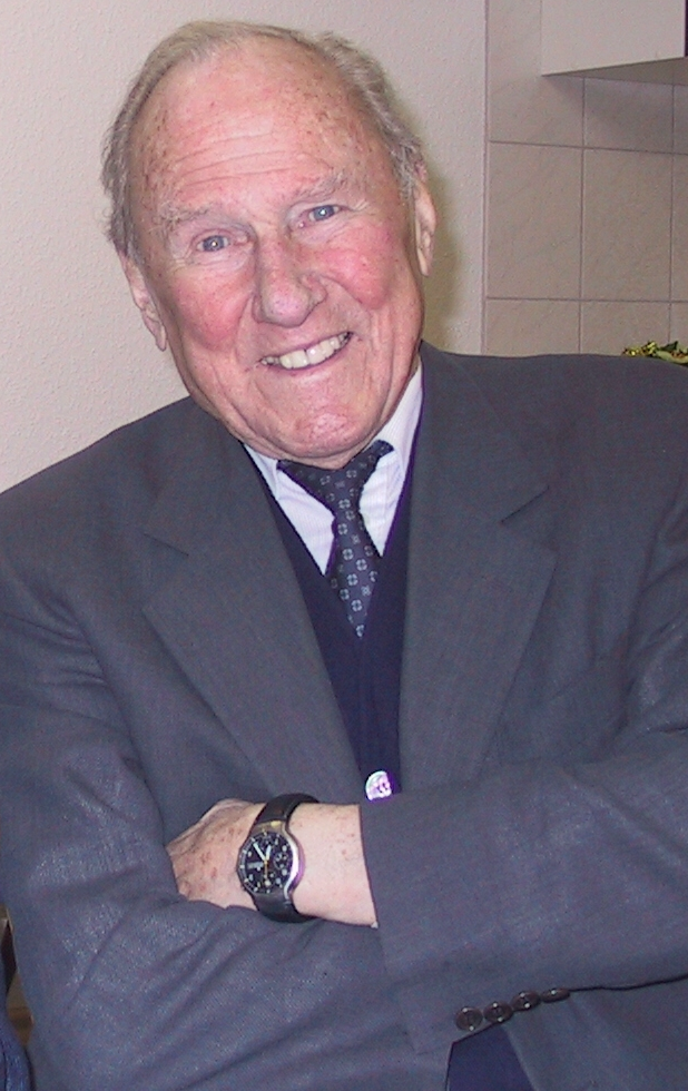 Lieutenant General Günther_Rall - German Air Force (retired) - at book performance on Nov/26/2004 in the "German-Canadian-Air-Force-Musem" in Baden-Airpark/Germany